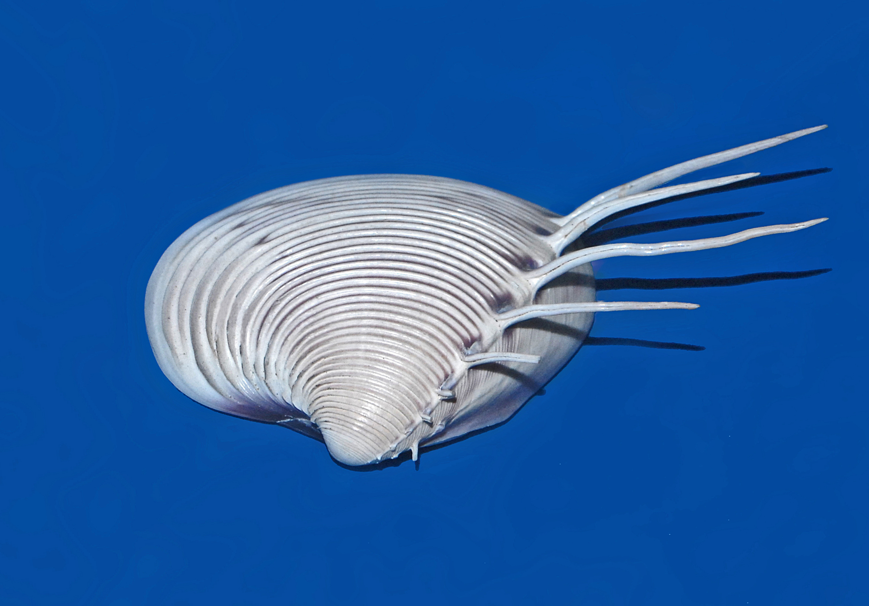 A shell of Pitar lupanaria from Philippines, on display at the Museo Civico di Storia Naturale di Milano